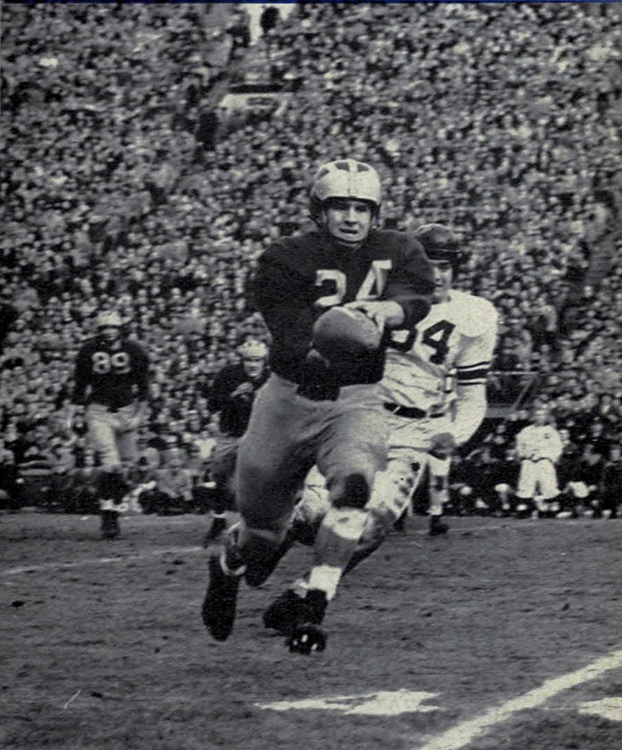 Photograph of Bill Putich This work is in the public domain because it was published in the United States between 1925 and 1963 and although there may or may not have been a copyright notice, the copyright was not renewed. Unless its author has been dead for the required period, it is copyrighted in the countries or areas that do not apply the rule of the shorter term for US works, such as Canada (50 pma), Mainland China (50 pma, not Hong Kong or Macao), Germany (70 pma), Mexico (100 pma), Switzerland (70 pma), and other countries with individual treaties. See Commons:Hirtle chart for further explanation. This work is in the public domain in the United States because it was published in the United States between 1925 and 1977, inclusive, without a copyright notice. See Commons:Hirtle chart for further explanation. Note that it may still be copyrighted in jurisdictions that do not apply the rule of the shorter term for US works (depending on the date of the author's death), such as Canada (50 p.m.a.), Mainland China (50 p.m.a., not Hong Kong or Macao), Germany (70 p.m.a.), Mexico (100 p.m.a.), Switzerland (70 p.m.a.), and other countries with individual treaties.